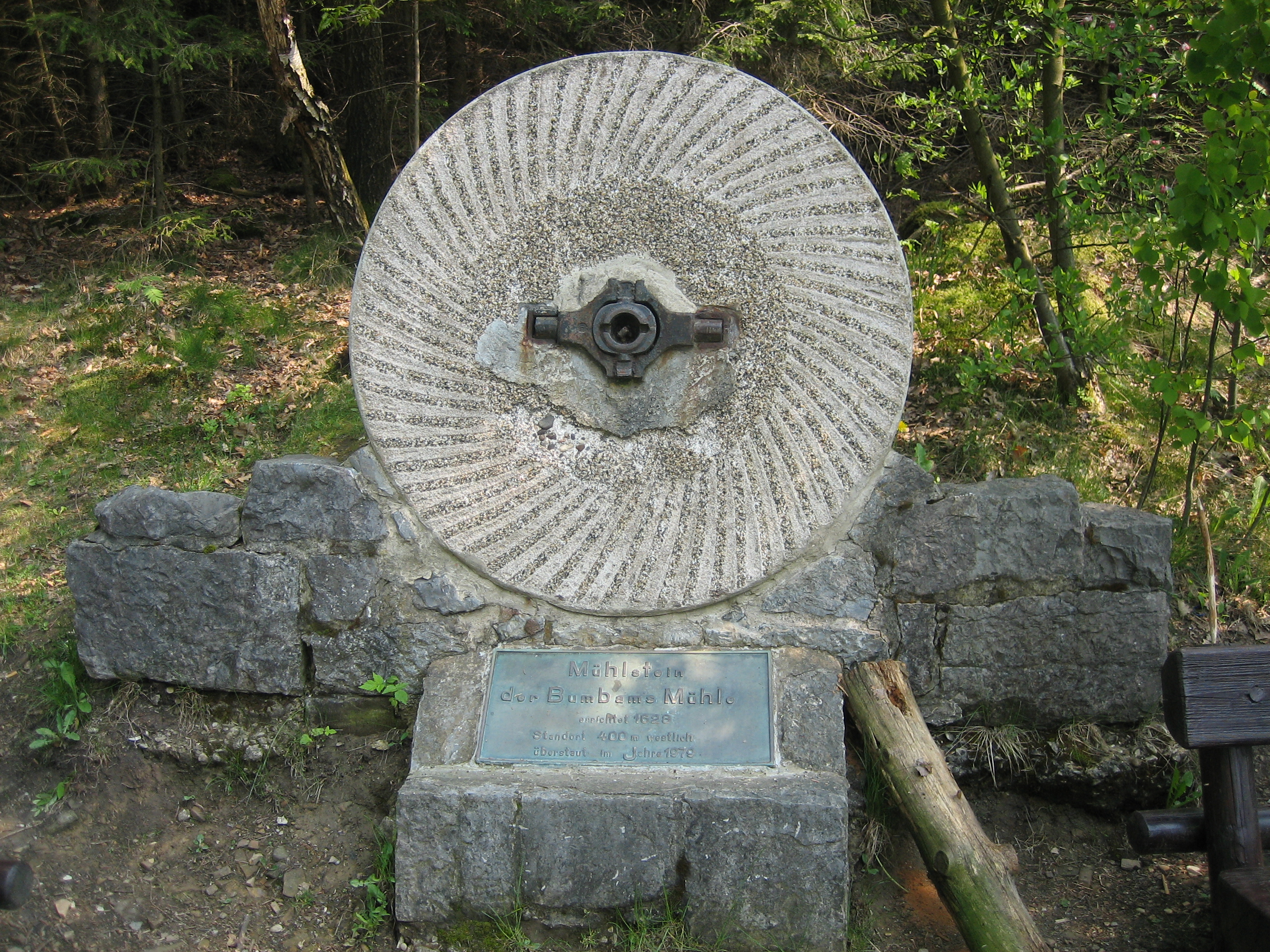 Millstone commemorating former Bumbam mills at Aabach reservoir in Bad Wünnenberg, District of Paderborn, North Rhine-Westphalia.